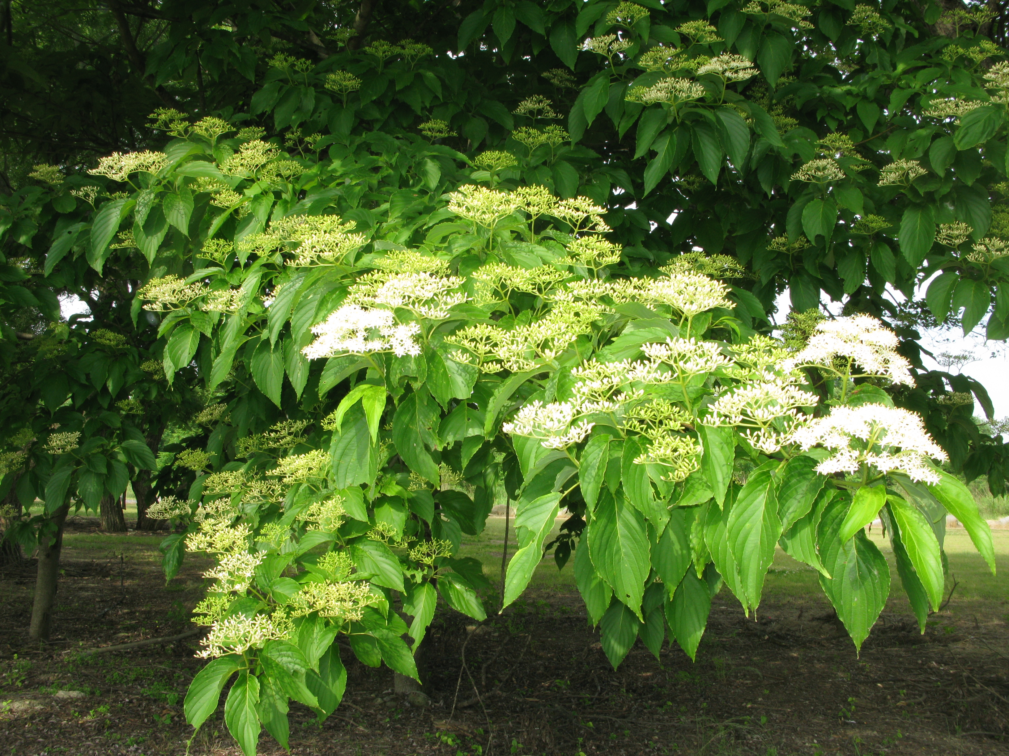 Cornus macrophylla (syn. Swida macrophylla), Aizu area, Fukushima pref., Japan